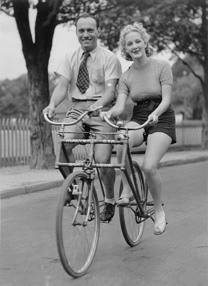 Format: Photograph Notes: Find more detailed information about this photographic collection: .au/item/itemDetailPaged.aspx?itemID=153705 Search for more great images in the State Library's collections: .au/search/SimpleSearch.aspx From the collection of the State Library of New South Wales